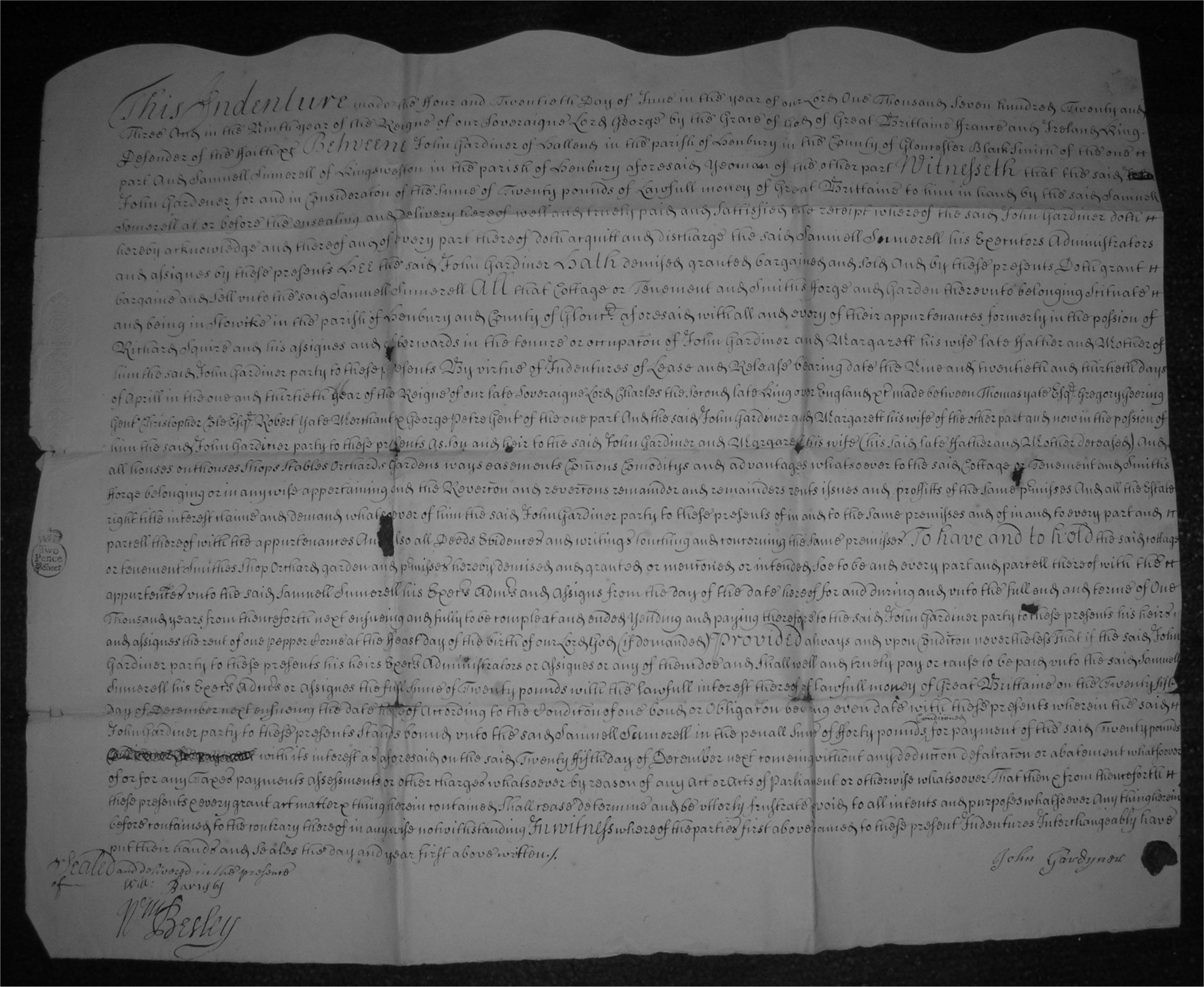 One half of an indenture document dated 24 June 1723, the ninth year of the reign of King George I of Great Britain. Characteristic of an indenture is the randomly curved cut (or torn) edge (visible at the top on this half), capable of proving a match to the counterpart document. Size of original 57 x 47 cm.)